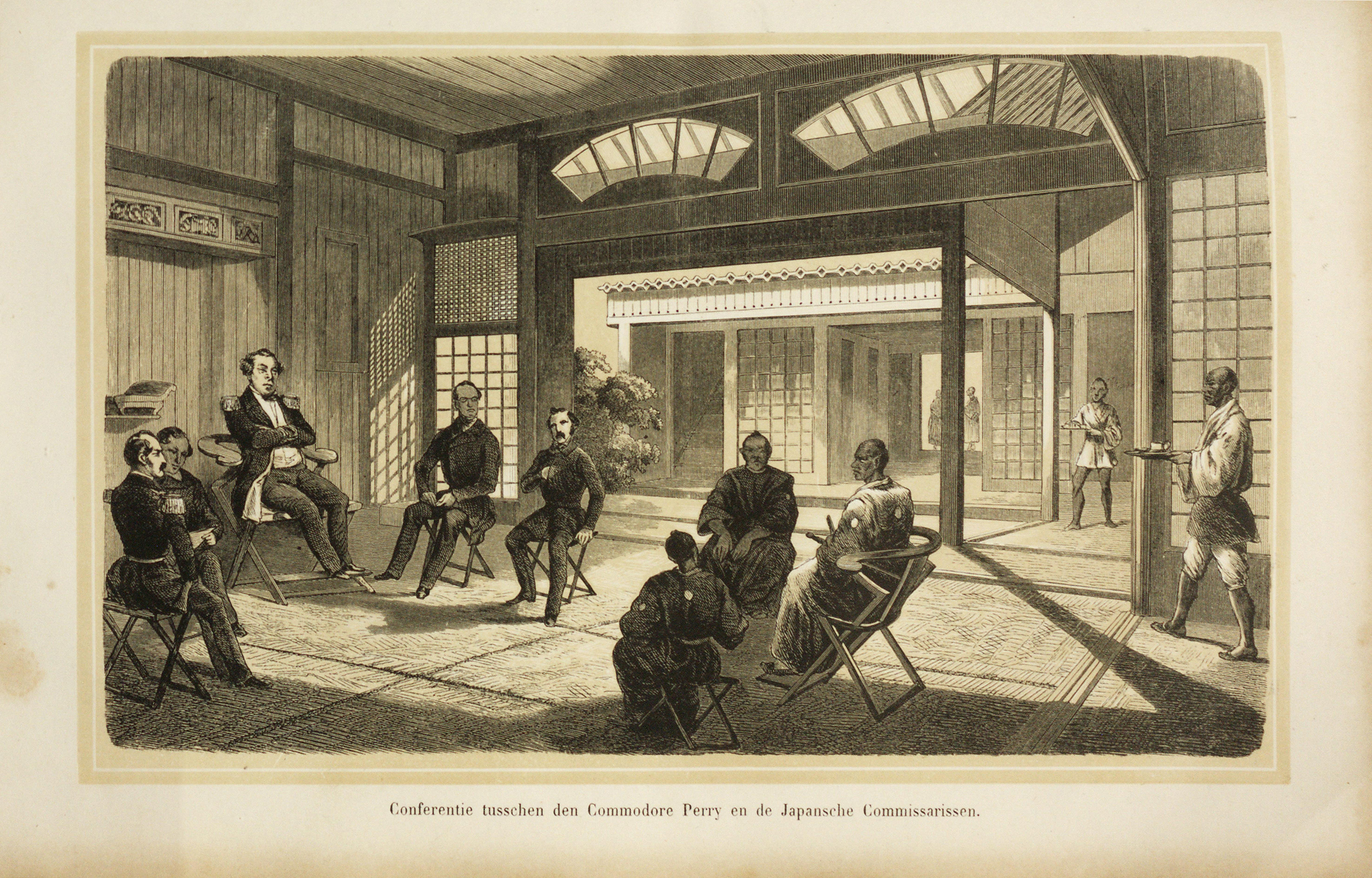 Conference between Commodore Perry and the Japanese Commissioners. Illustration in the Dutch translation of Wilhelm Heine (1856): Reise um die erde nach Japan.